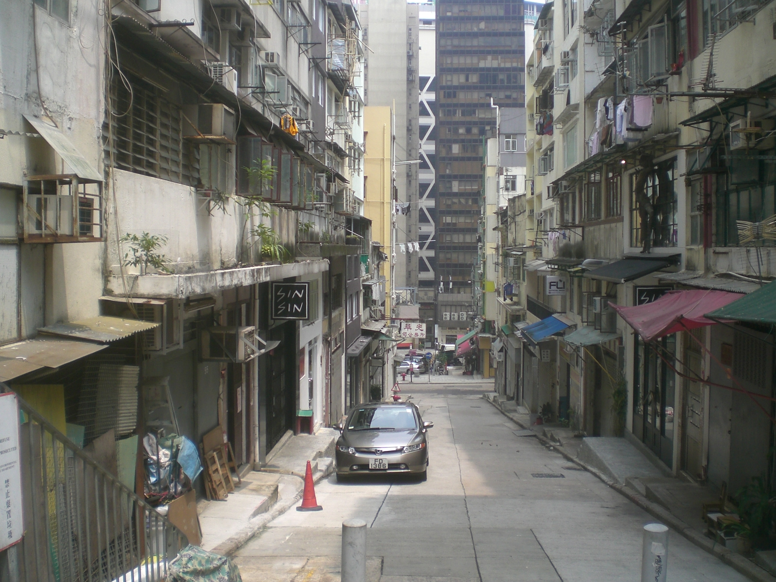 上環 近zh:太平山街望 西街